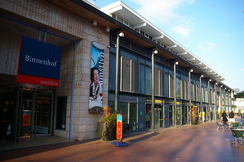 Amstelveen Binnenhof Winkelcentrum (shopping centre)